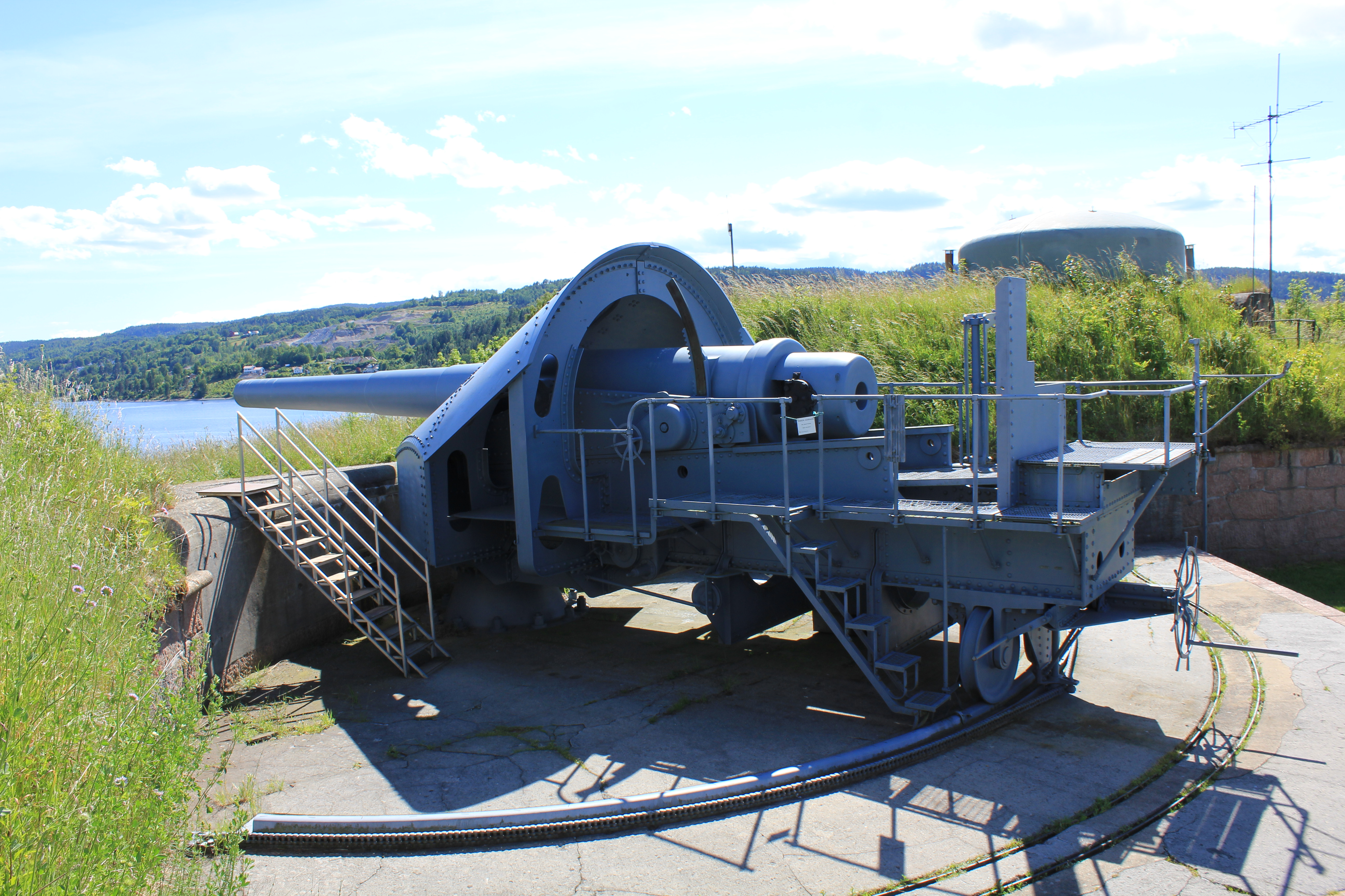 Canon at Oscarsborg Fortress by Drøbak, Norway.